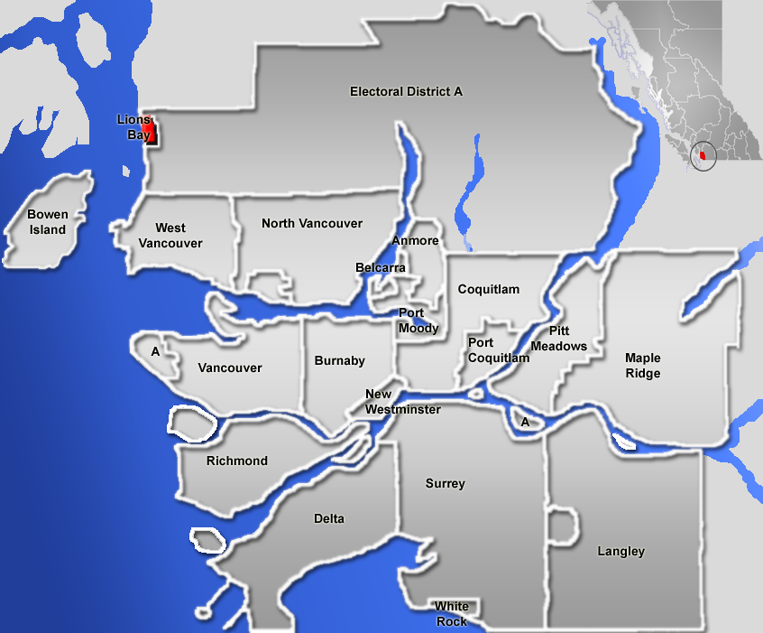 Location of Lions Bay, Greater Vancouver Area, British Columbia